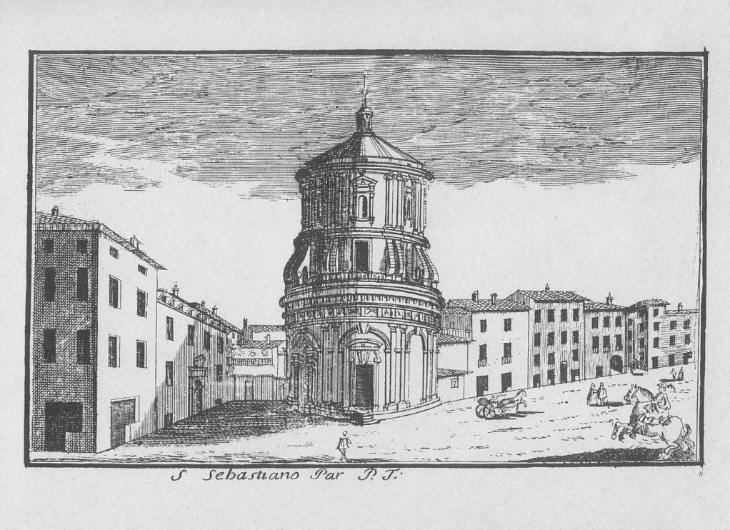 Marc'Antonio Dal Re (1697-1766), "San Sebastiano" church in Milan. This engraving is # 8 from a set of 88 Vedute di Milano ("Views of Milan") published by Del Re around 1745.